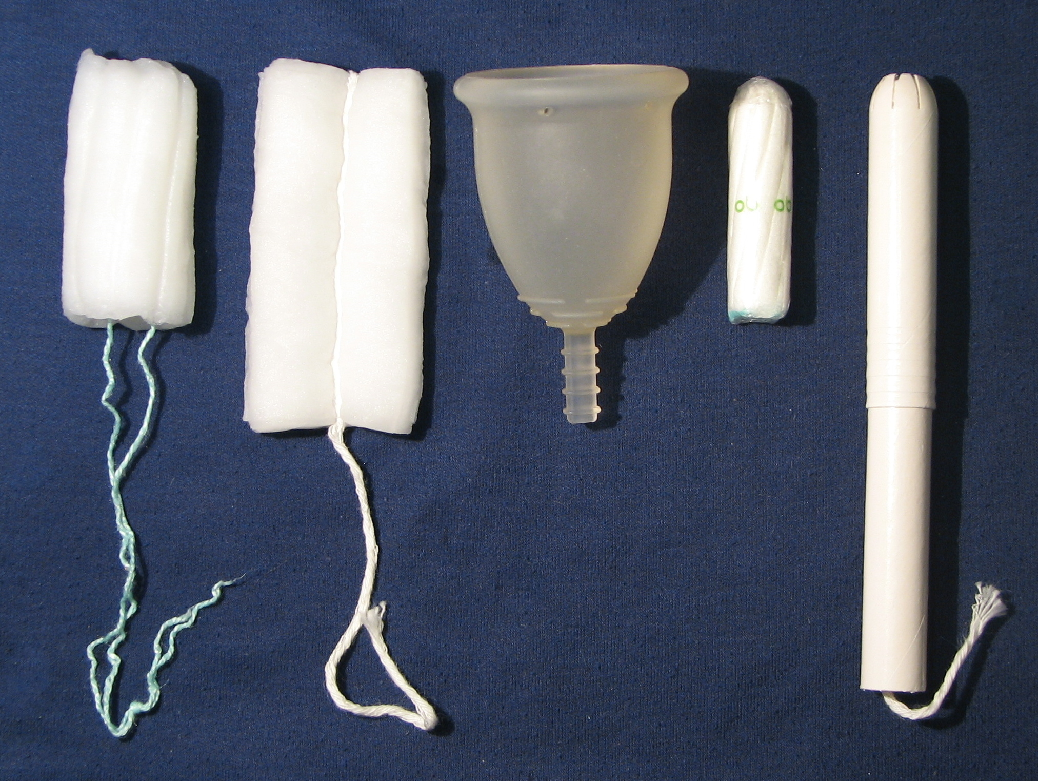 Fleurcup menstrual cup (large size); Super digital tampon; Regular applicator tampon